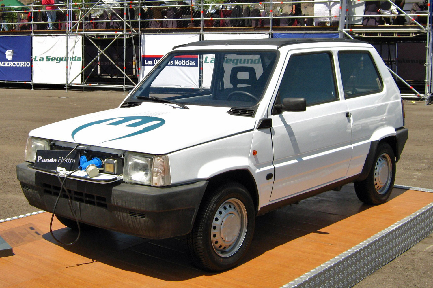 Fiat Panda Elettra 1990 on display at 2010 Santiago Motorshow. According to the signpost, the first electric car presented in Chile, in 1994.